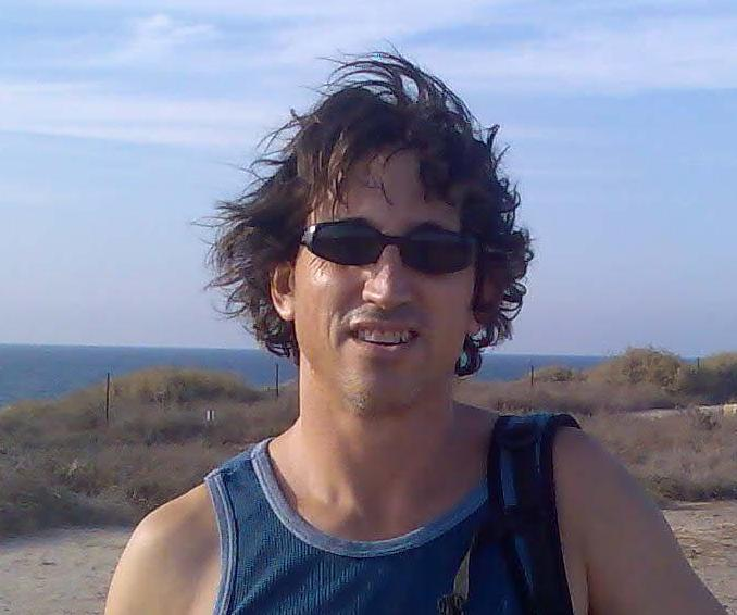 Prof. Nir shavit